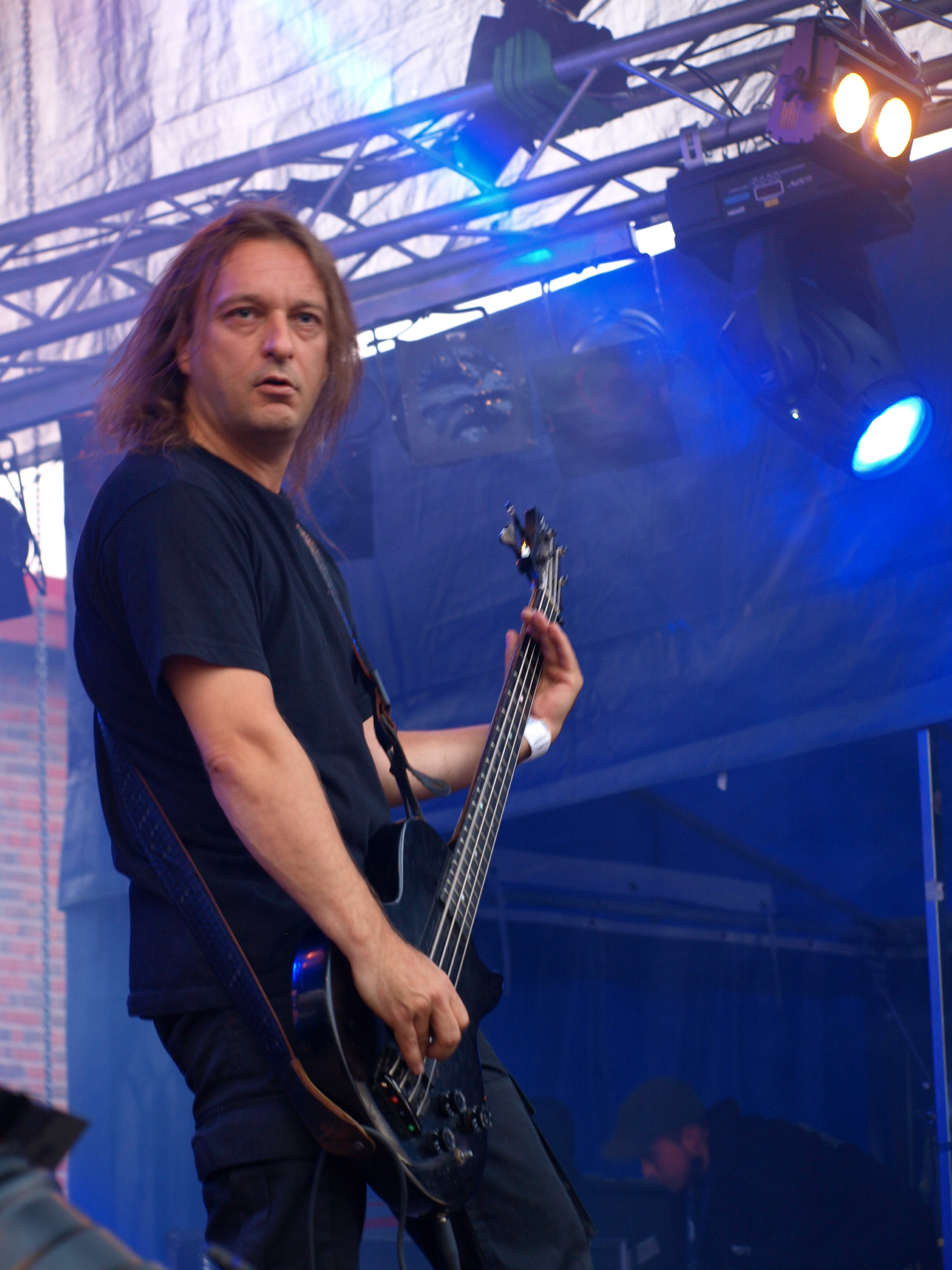 Norwegian black metal band Mayhem live at Jalometalli 2008 in Oulu.